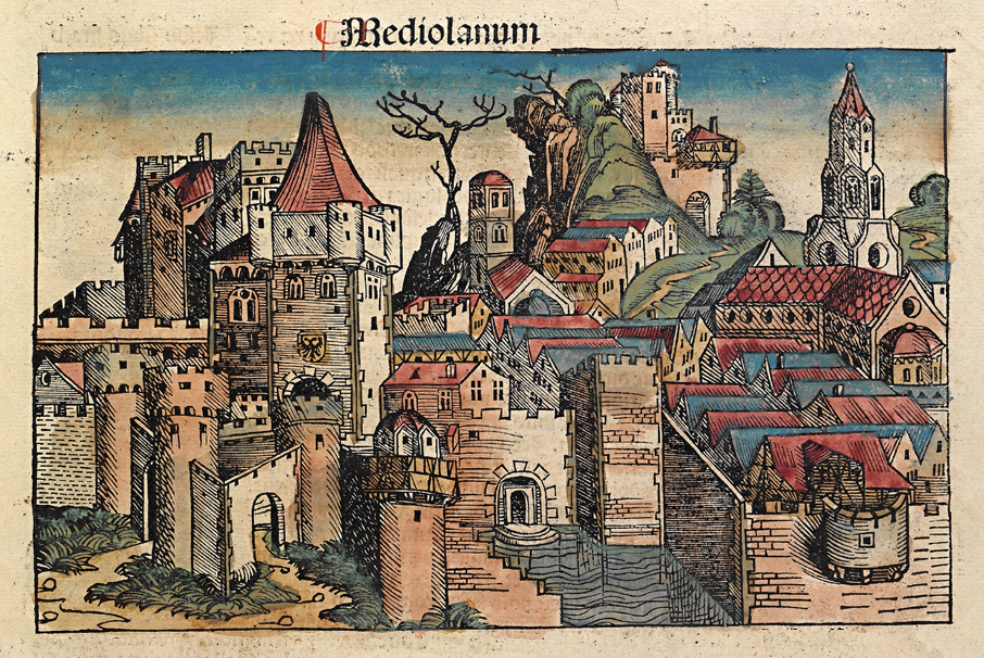 Woodcut from the Nuremberg Chronicle